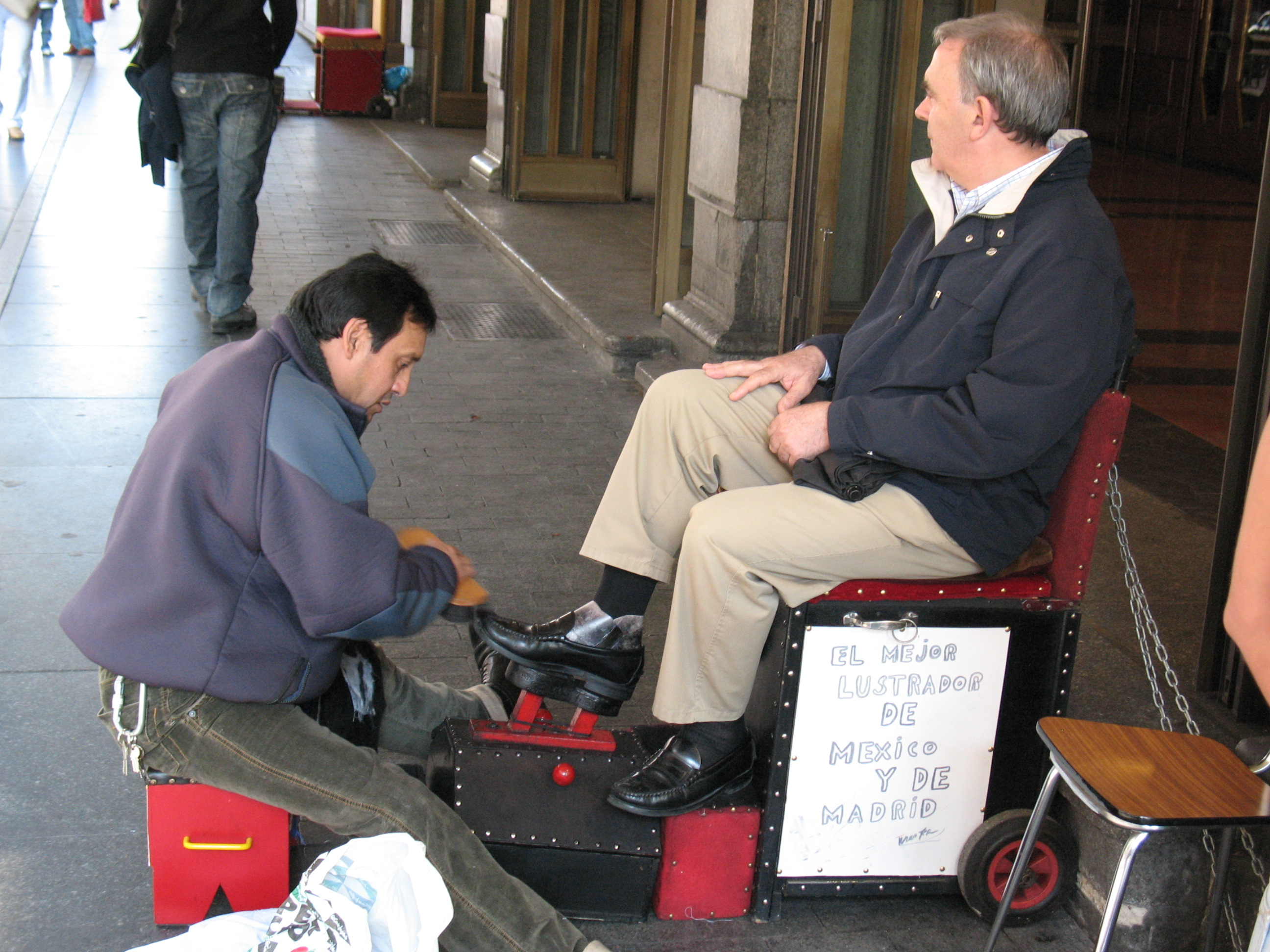 Shoeshiner in Madrid